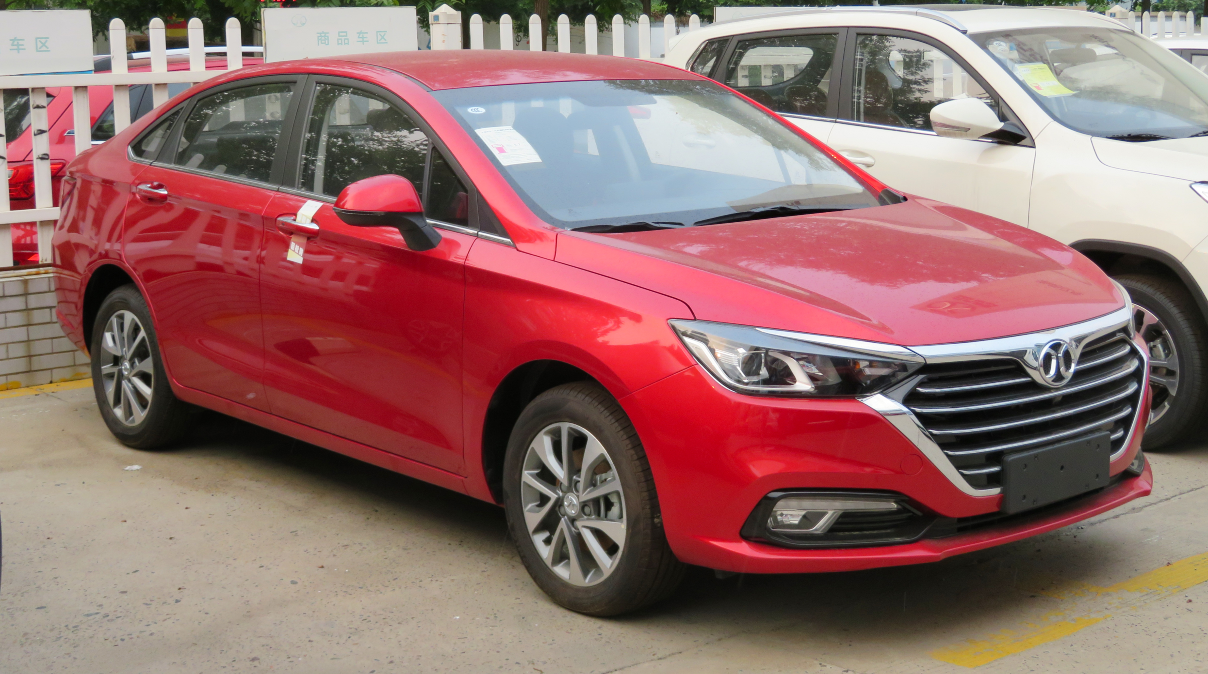 A 2018 BAIC Senova D50 photographed in Luoyang, Henan province, China